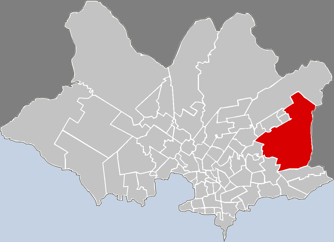 Map highlighting the given barrio in Montevideo.